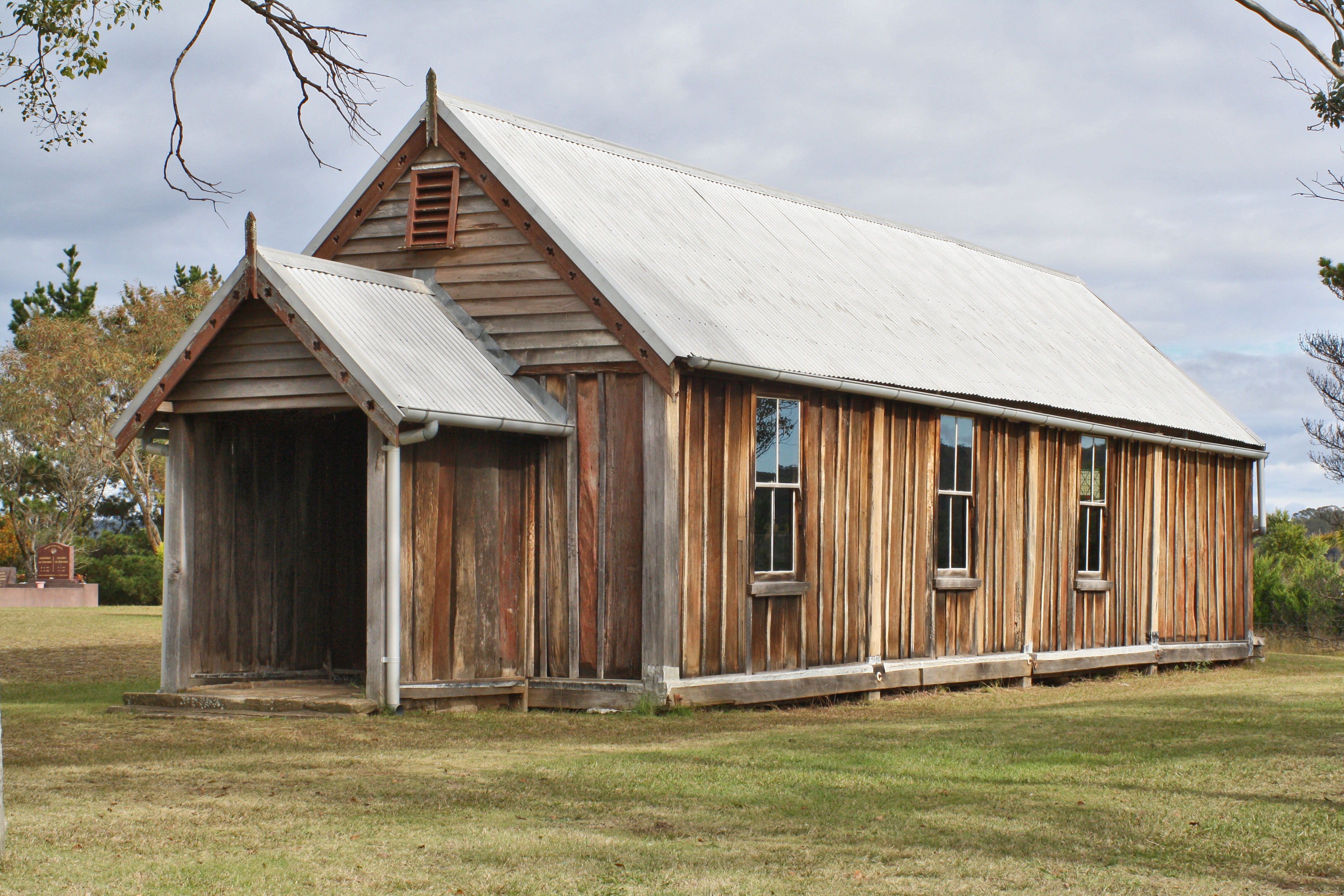 Church built of timber slabs 1836 at The Oaks NSW, Australia.